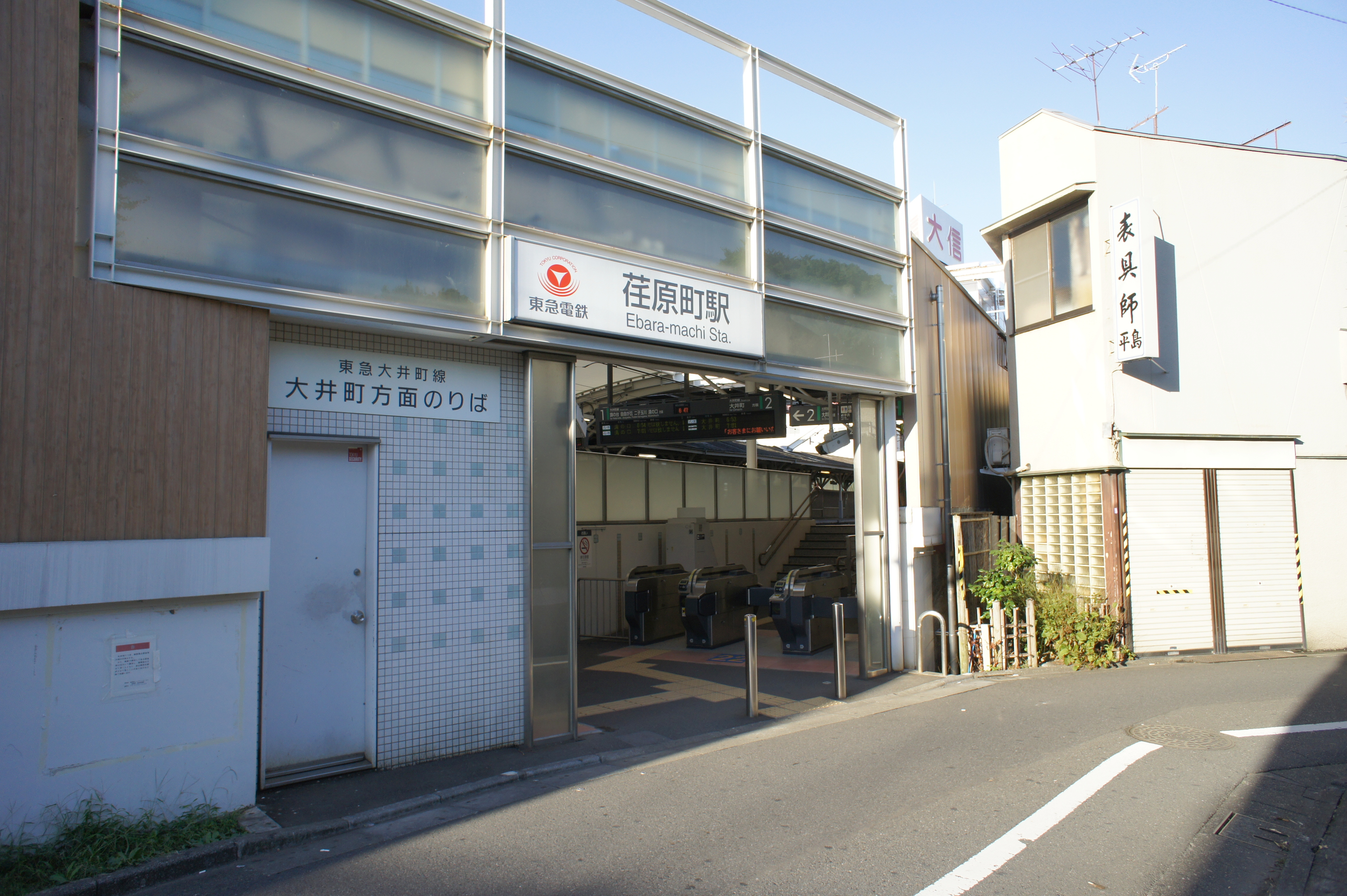 Ebaramachi Station, Tokyu Ooimachi line, Toyko, Japan